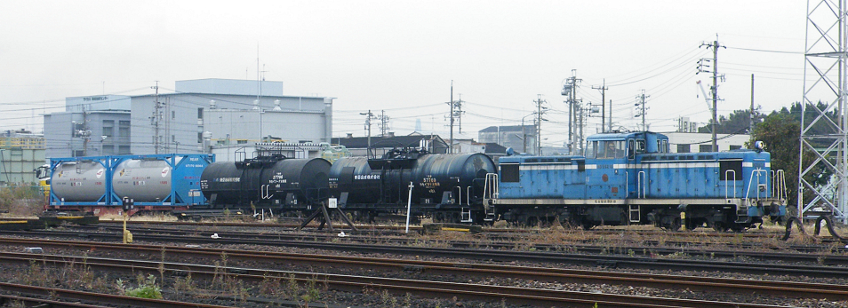 Freight train from Sanyo Chemical to Toko Sta. on the Nagoya Rinkai Railway.